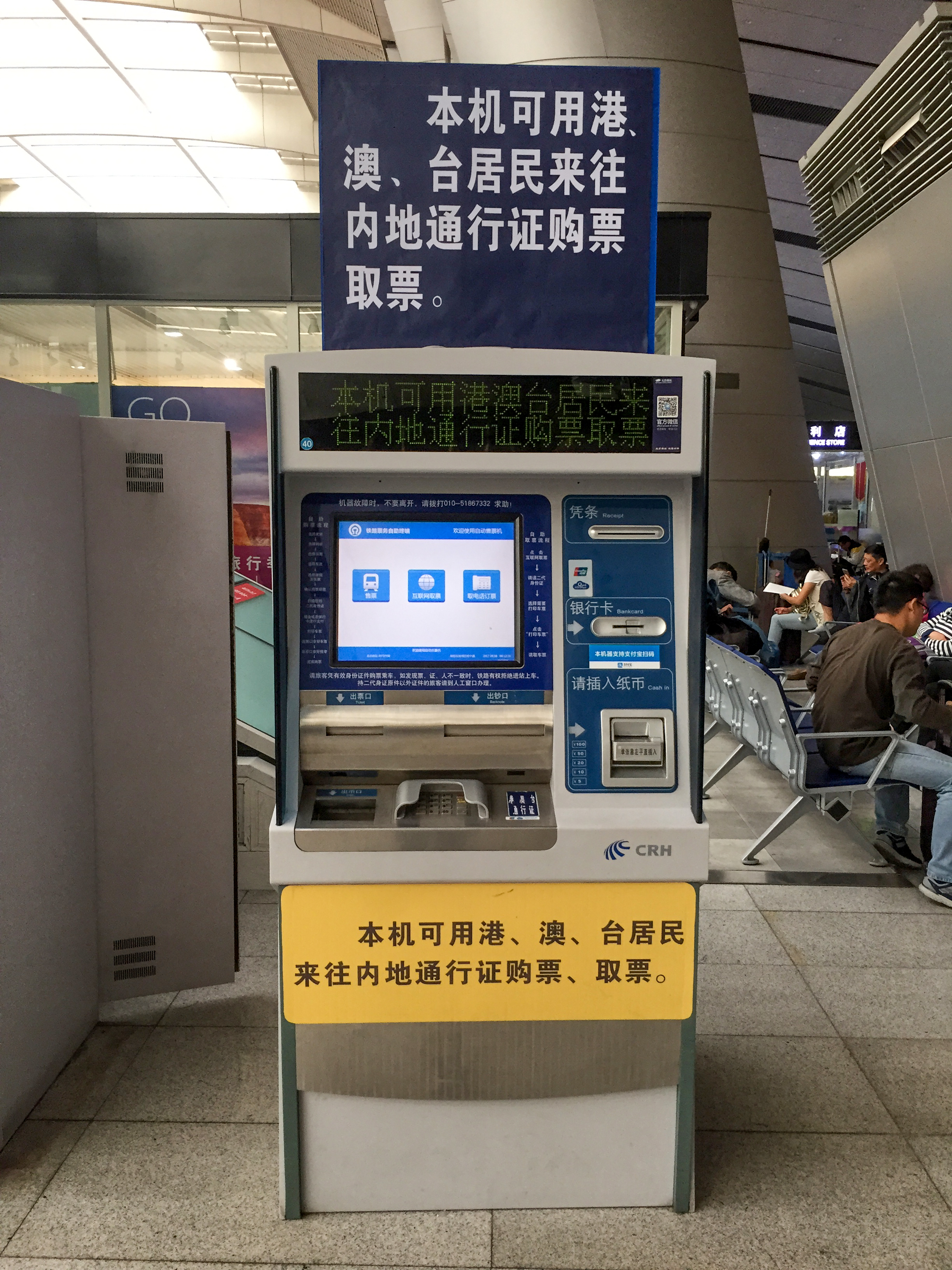 This TVM next to Gate 17 supports Mainland Travel Permit for Hong Kong and Macao Residents and Mainland Travel Permit for Taiwan Residents. This was proved by CE Carrie Lam...